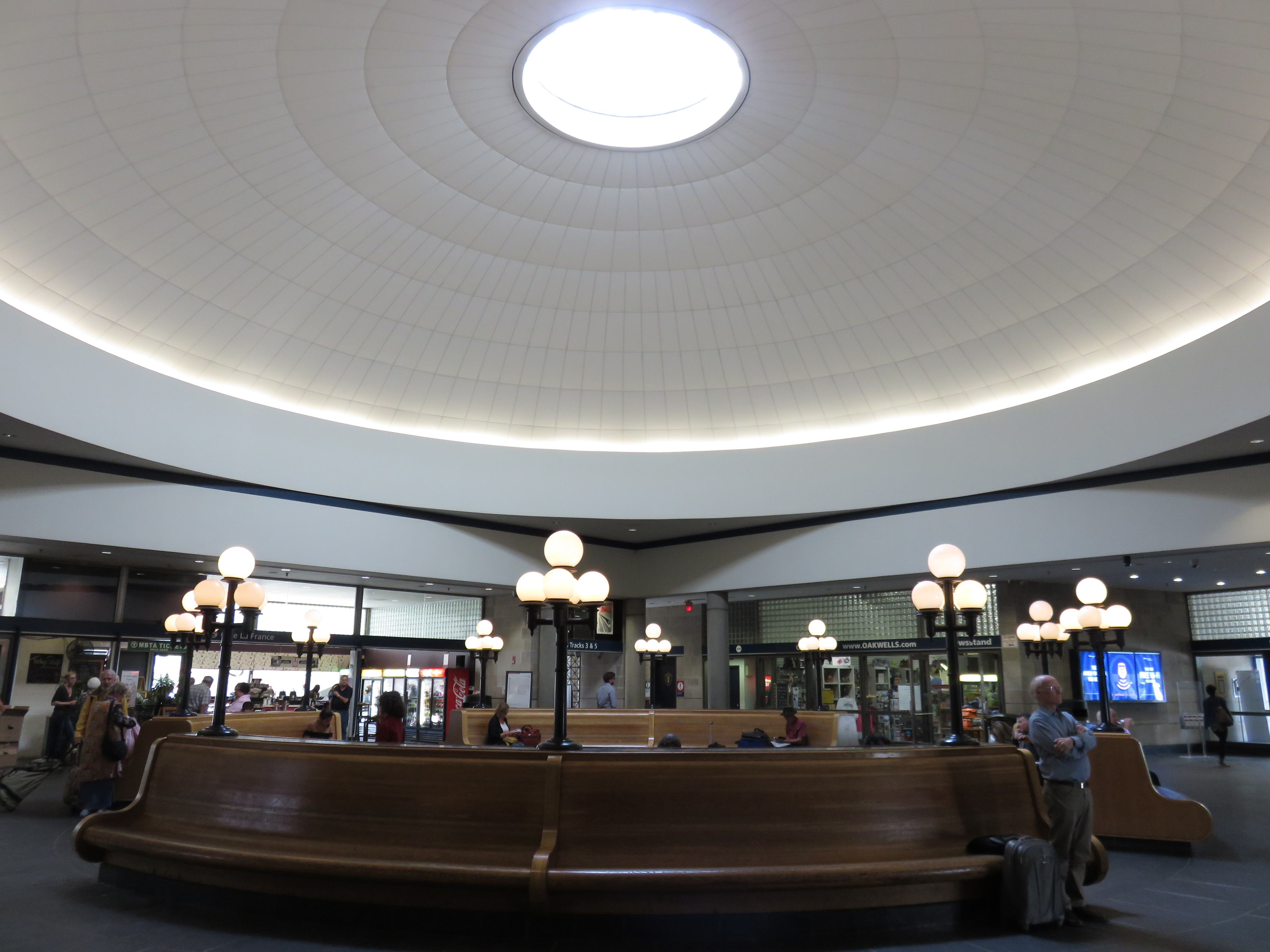 Interior of Providence Railroad Station in Providence, Rhode Island in 2015